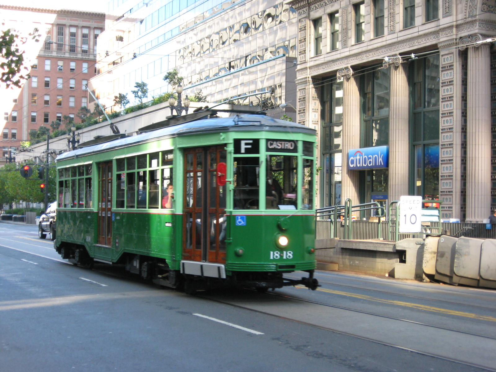 A repainted ex-Milan tram in the San Francisco's F-Market Line.